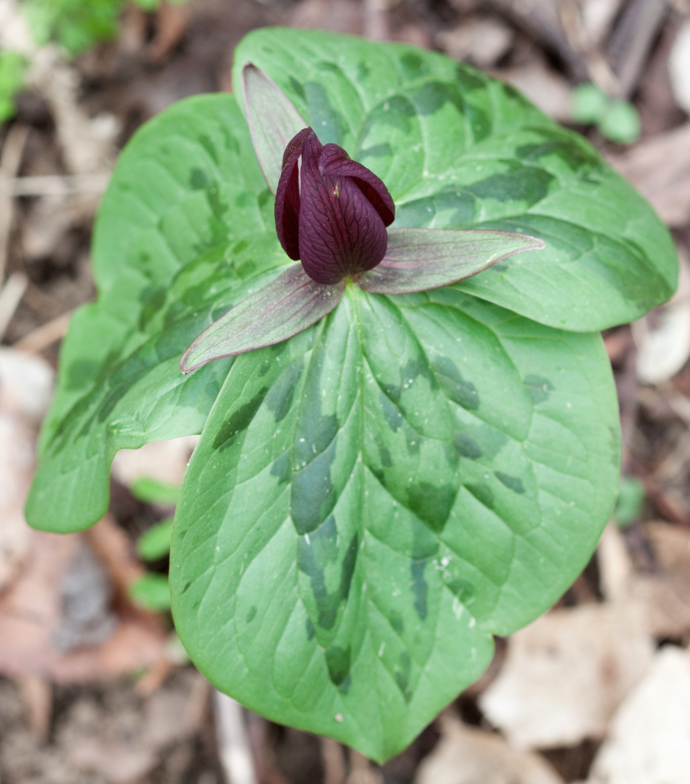 A Toadshade trillium (Trillium sessile) found at Radnor Lake in Nashville, Tennessee